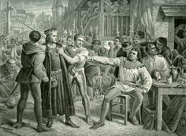 depiction of the English rebel Jack Cade, as represented in Shakespeare's Henry VI, Part 2. Painting by Charles Lucy, entitled "Lord Saye and Sele brought before Jack Cade 4th July 1450"